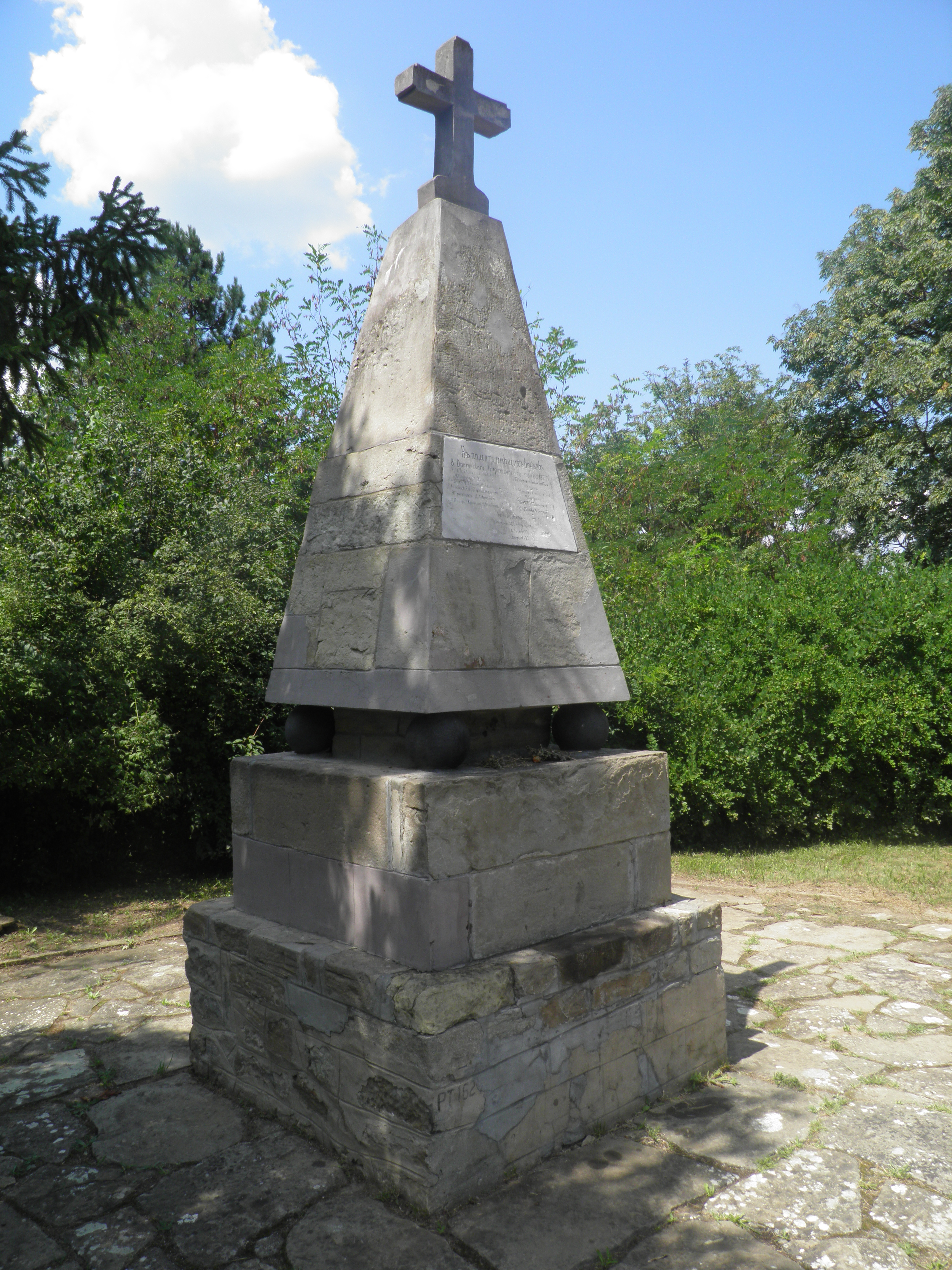 Monument in Sveta gora,Veliko Tarnovo